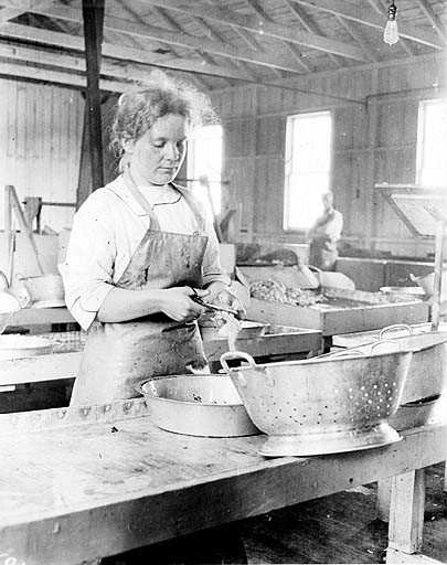 From John Cobb field notebook: Sea Beach Packing Works, Copalis, Wash. 1915. A woman cleaning clams. Subjects (LCTGM): Canneries--Washington (State)--Copalis; Clams--Preservation Subjects (LCSH): Sea Beach Packing Works (Copalis, Wash.); Women cannery workers--Washington (State)--Copalis